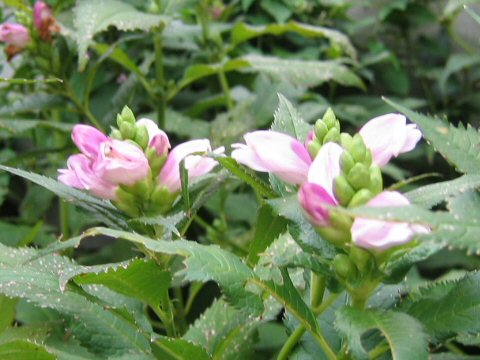 Chelone lyonii